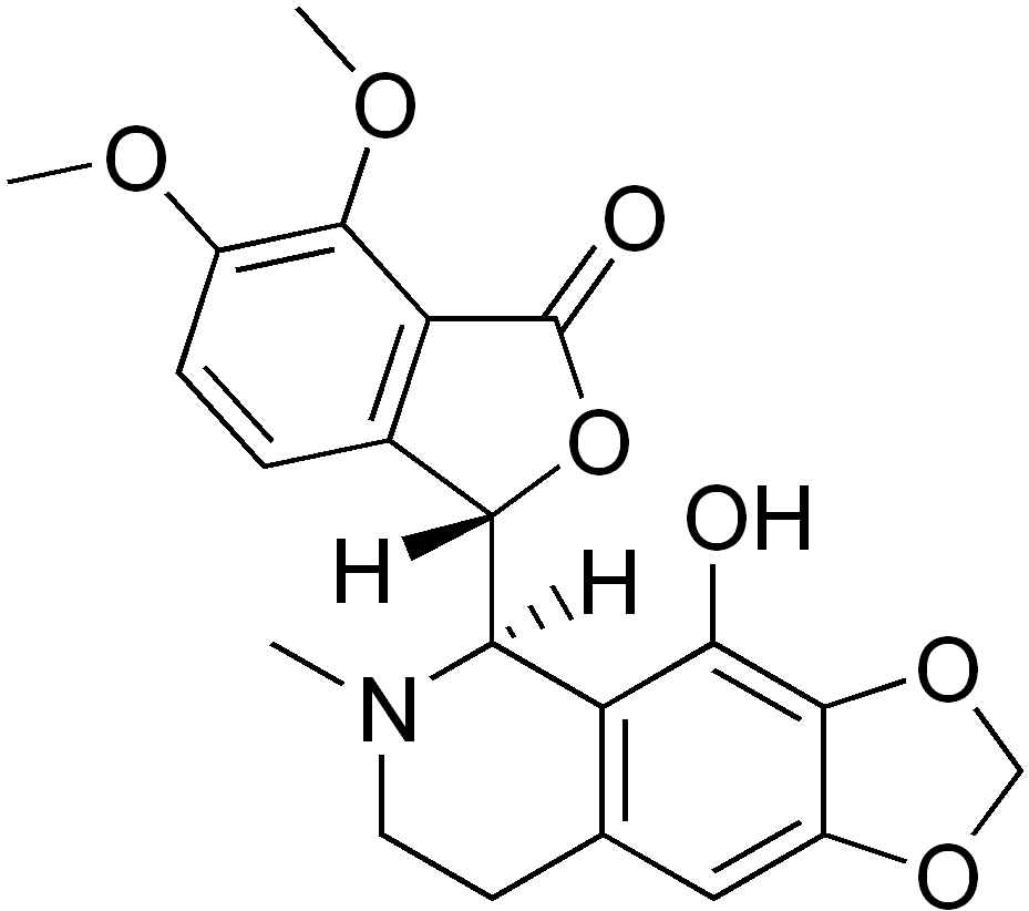 chemical structure of narcotoline